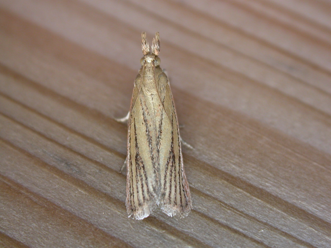 Ematheudes punctella, Gastes, Landes, SW France, 30 June/1 July 2003